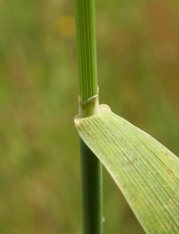 Ligula of Holcus mollis